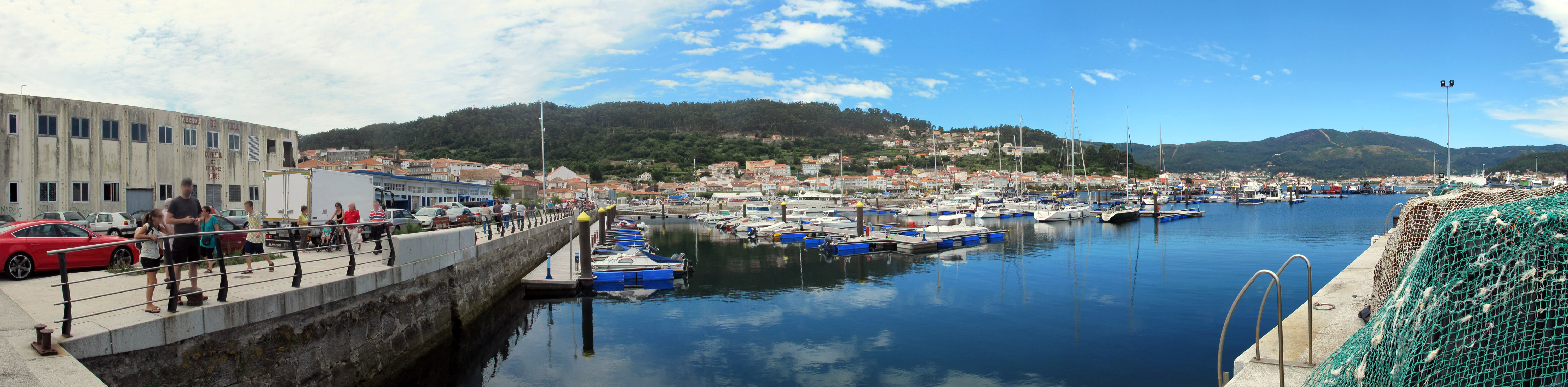 view of Muros from the port